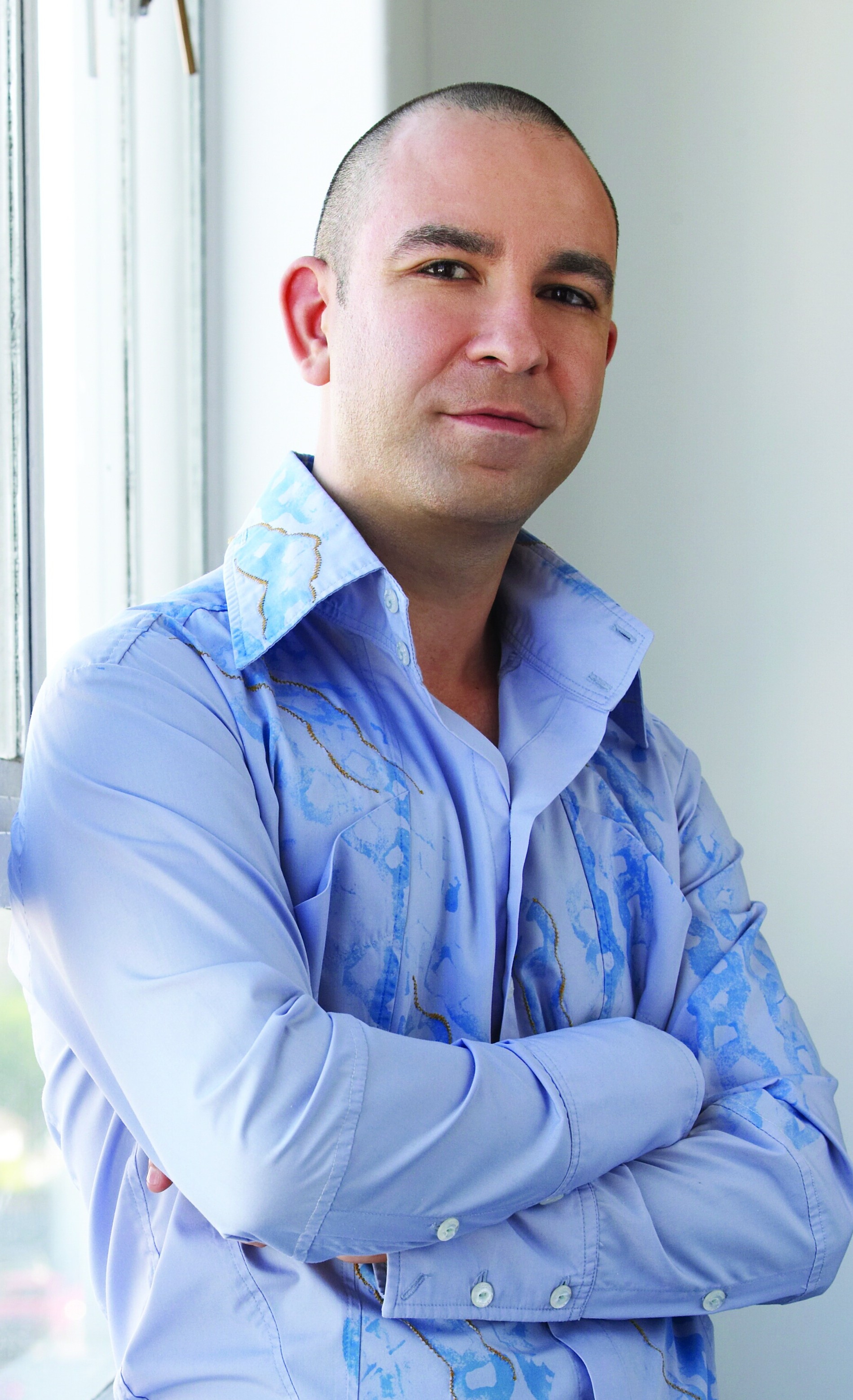 Portrait of Bruno with arms crossed.